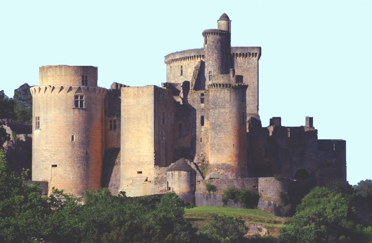 Chateau de Bonaguil (built by: de Roquefeuil-Blanquefort family)